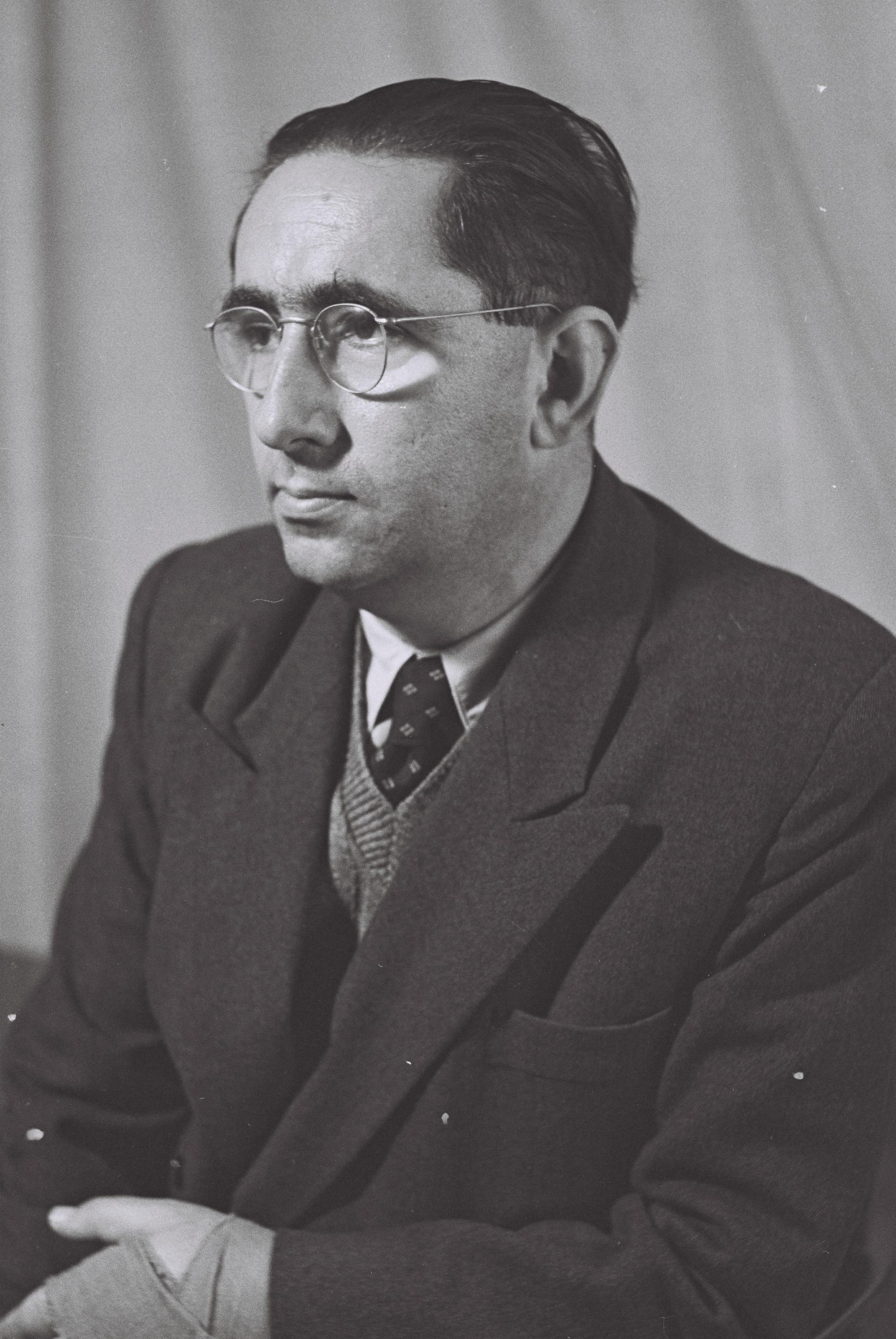 IDOV COHEN. MEMBER OF KNESSET, PROGRESSIVES PARTY.